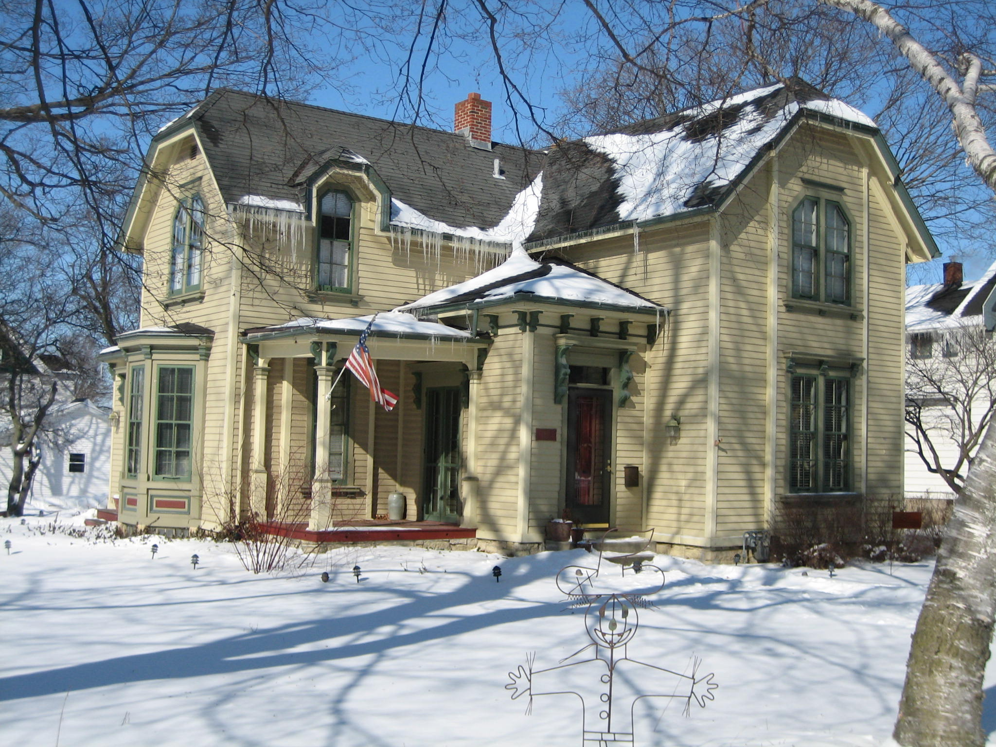 453 Somonauk St, Hosea Willard House, Sycamore, Illinois. Sycamore Historic District, National Register of Historic Places.